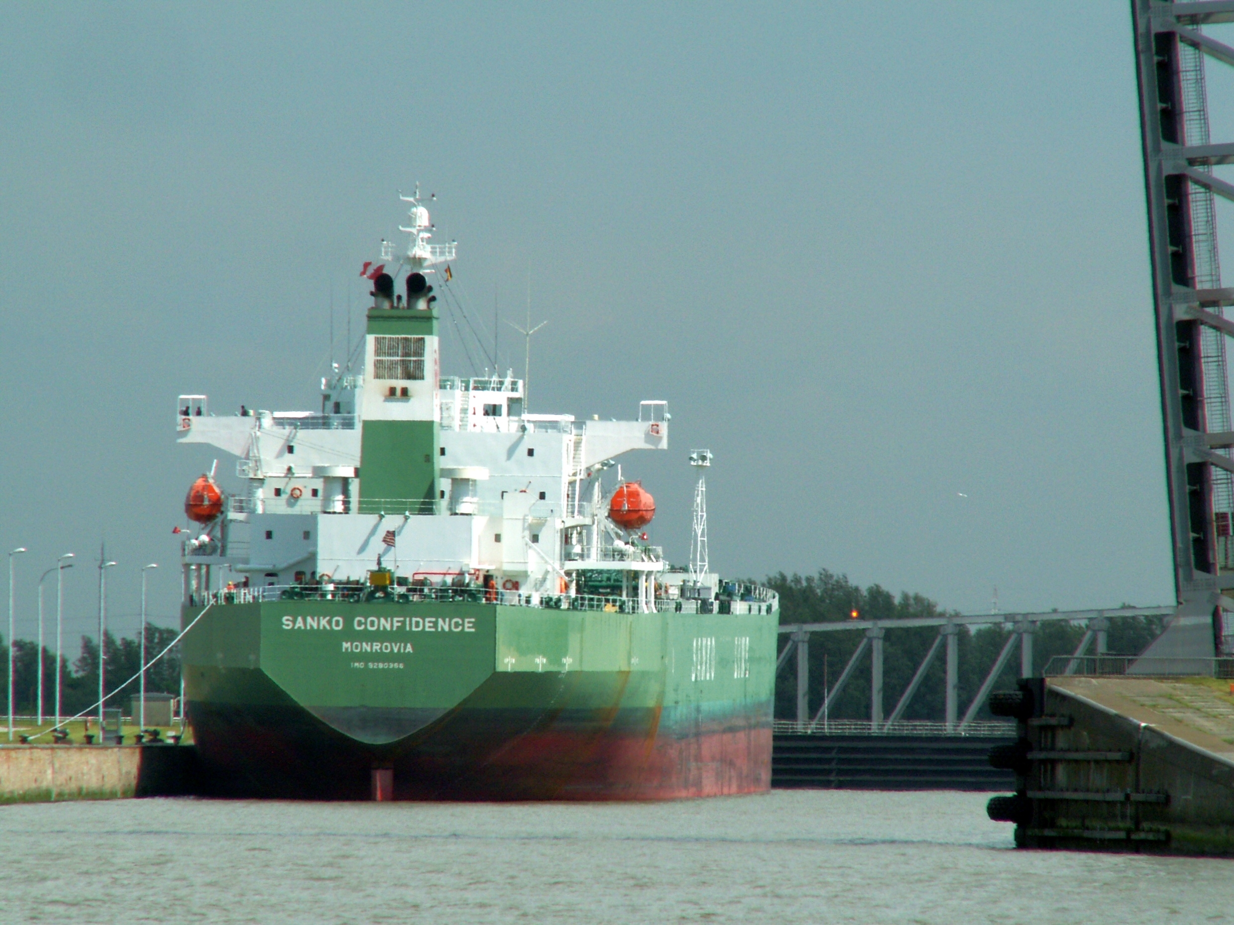 Sanko Confidence IMO 9280366 at the Berendrecht lock, Antwerp, Belgium 23-May-2005.